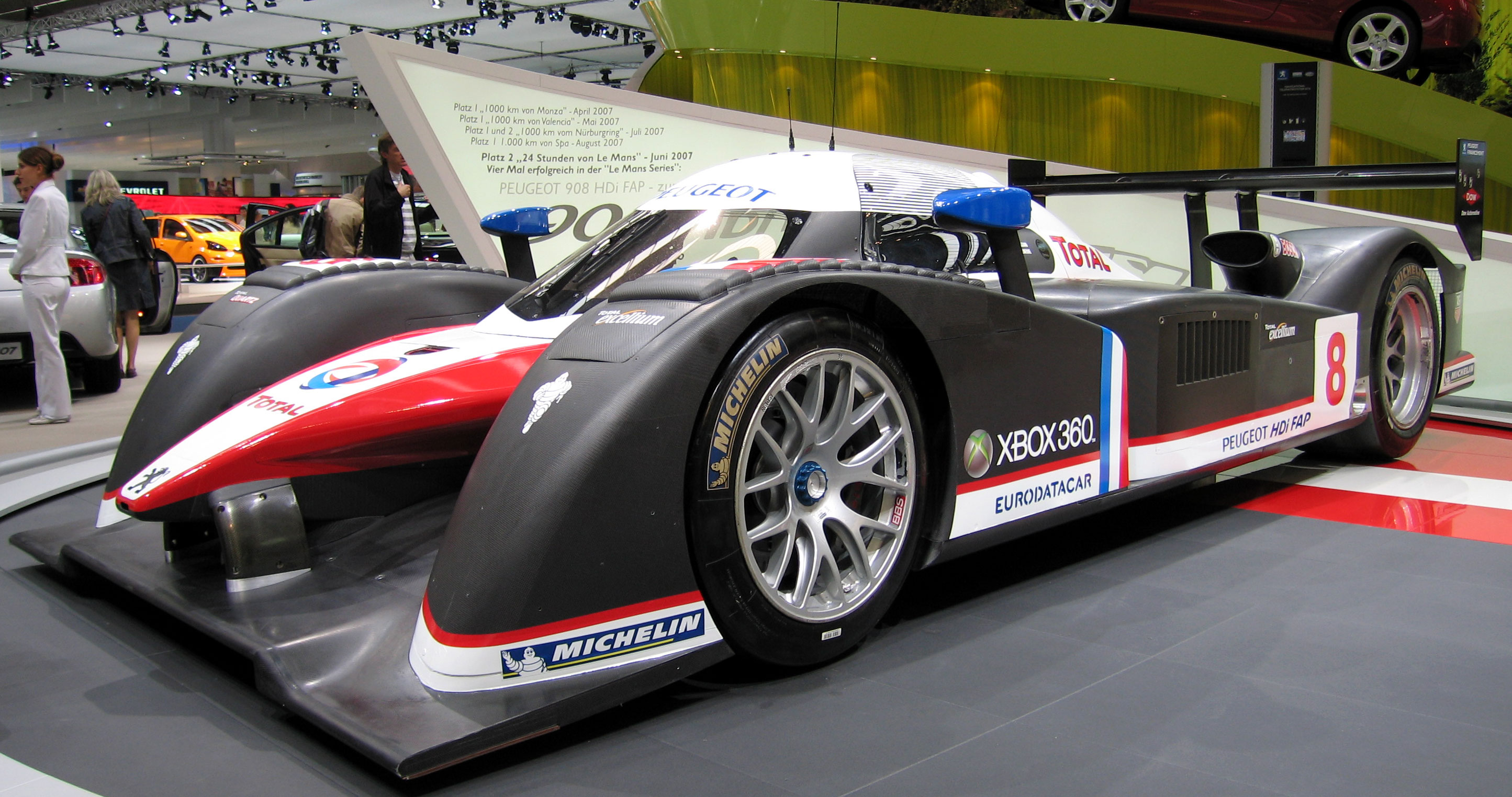 Peugeot 908 HDi FAP at the IAA 2007